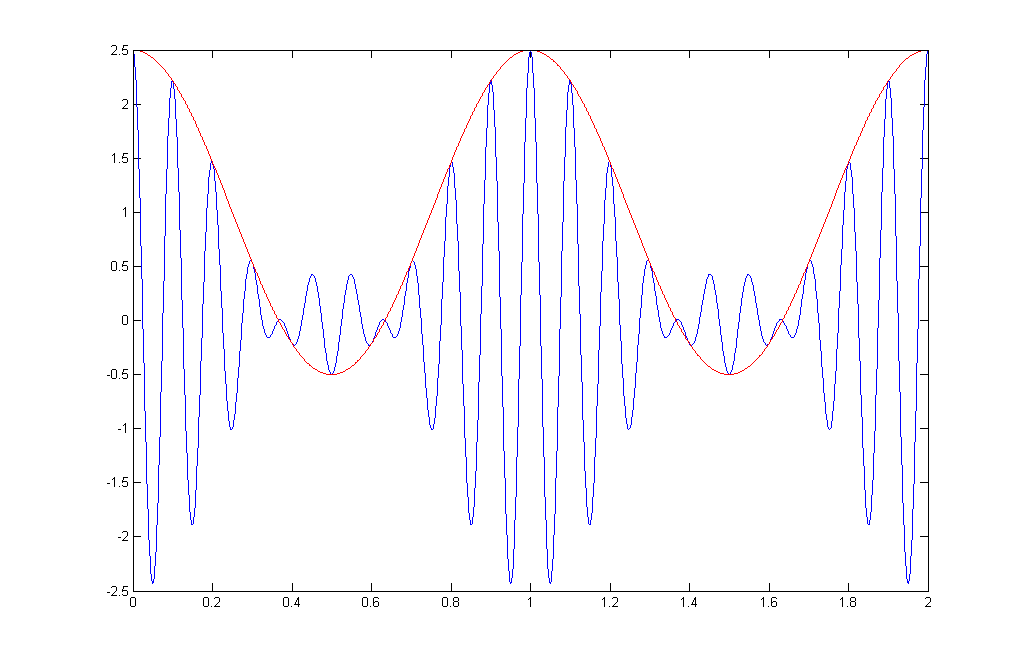 Amplitude modulated signal, modulated using a sine function and modulation depth of 150%.